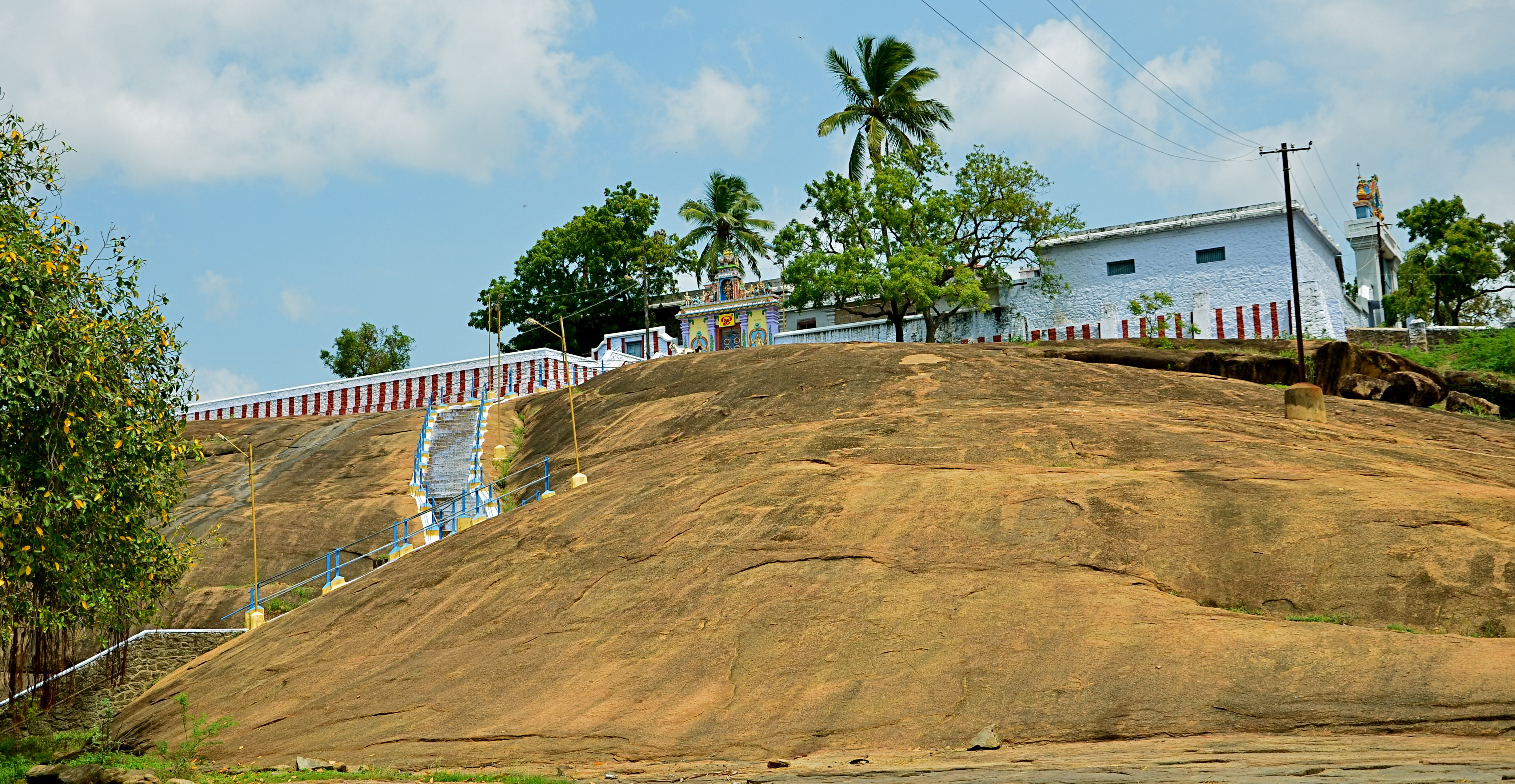 This Murugan temple is located at Marungoor in Kanyakumari District, India.